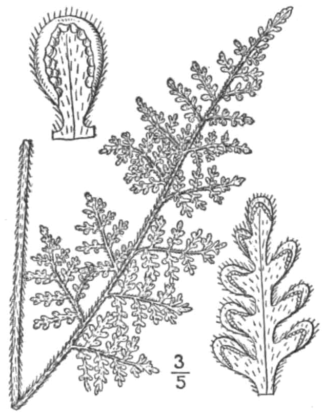 Fig. 81. Cheilanthes tomentosa from the second edition of An Illustrated Flora of the Northern United States, Canada and the British Possessions (New York, 1913)